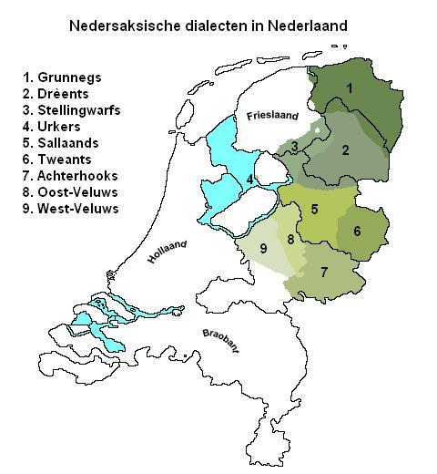 Map of Dutch low saxon dialects in the Netherlands